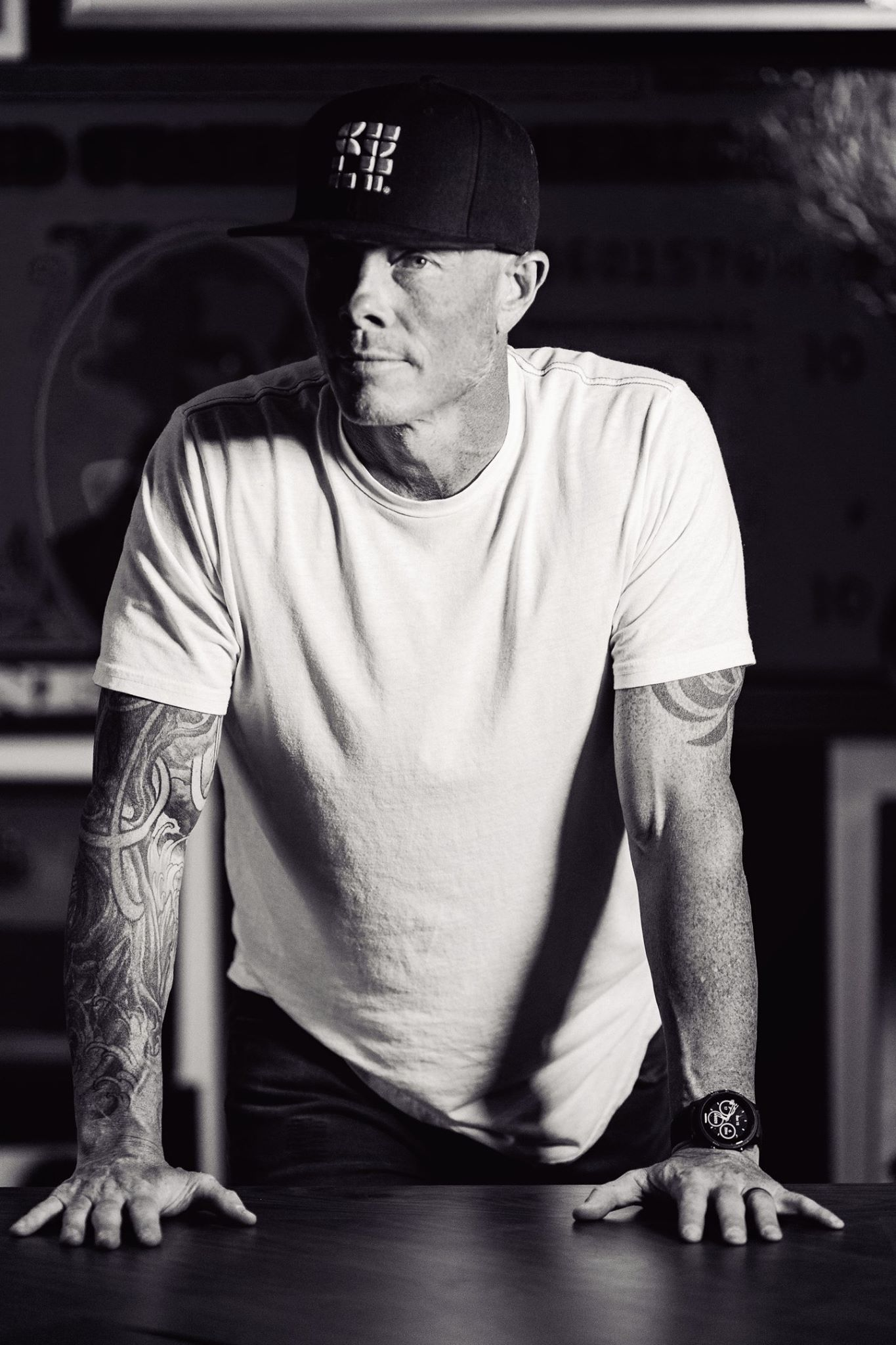 Rick Steele poses in his Gilbert, AZ home